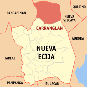 Map of Nueva Ecija showing the location of Carranglan